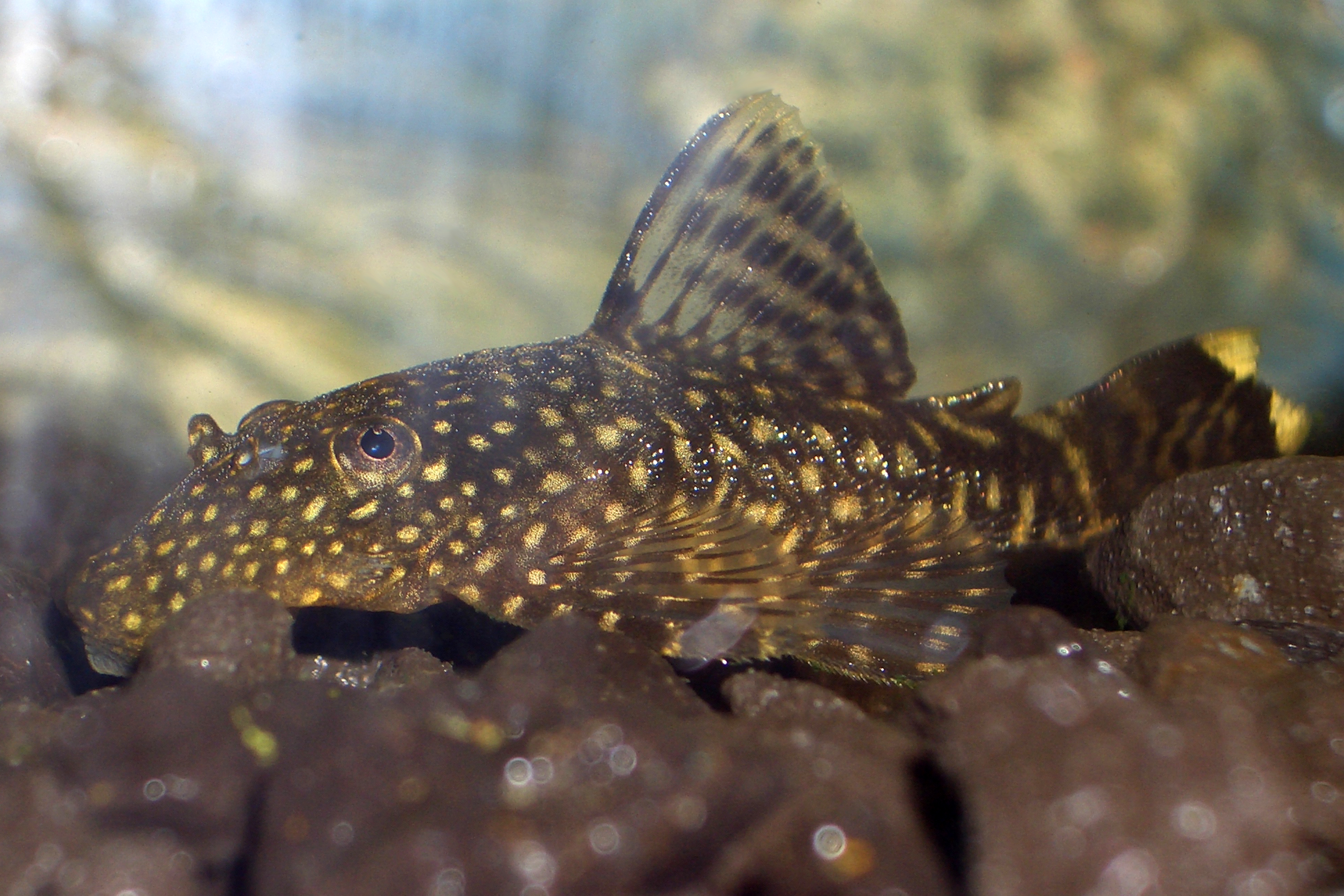 Ancistrus dolichopterus (young fish)